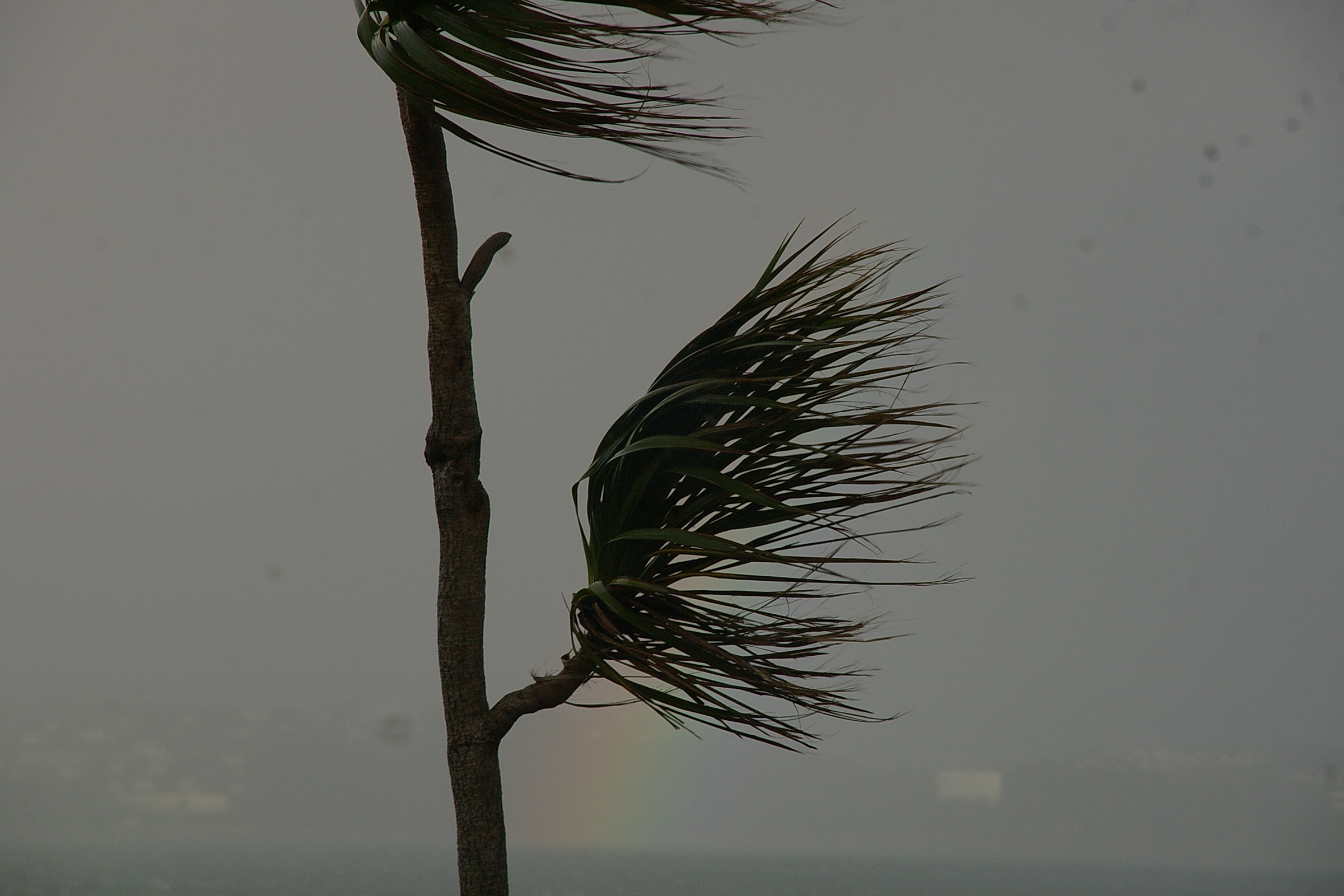 A windswept tree on Berry Head, at the hotel there. You can just make out the rainbow that was stalking us all day. Incidentally, yes, it's slanted, but I think that's ok.